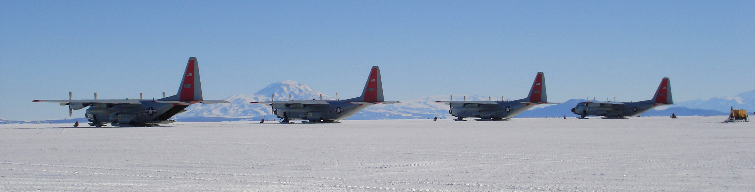 Four US Air Force Hercules aircraft at Willies field, Antarctica, 6th Jan 2006.